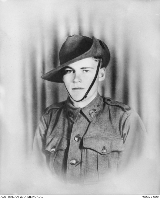 Studio portrait of Private Vasil (Basil) Albert 'Babe' Lucas who enlisted on 20 June 1940, aged 15, with the service number NX33033. Pte Lucas had put his age up to enllist. He was discharged on 17 November 1940 and re-enlisted on 4 April 1941in 2/3 Battalion. He served in Syria, Bardia and Tobruk and later in New Guinea on the Kokoda Trail. He was killed in action on 25 November 1942 after an advanced dressing station to which he had been admitted with scrub typhus was strafed by Japanese aircraft fire. He was one of nine brothers from the Lucas family who enlisted from the Bega district. Many of the brothers had multiple enlistments and some enllisted together and served together for periods of time.